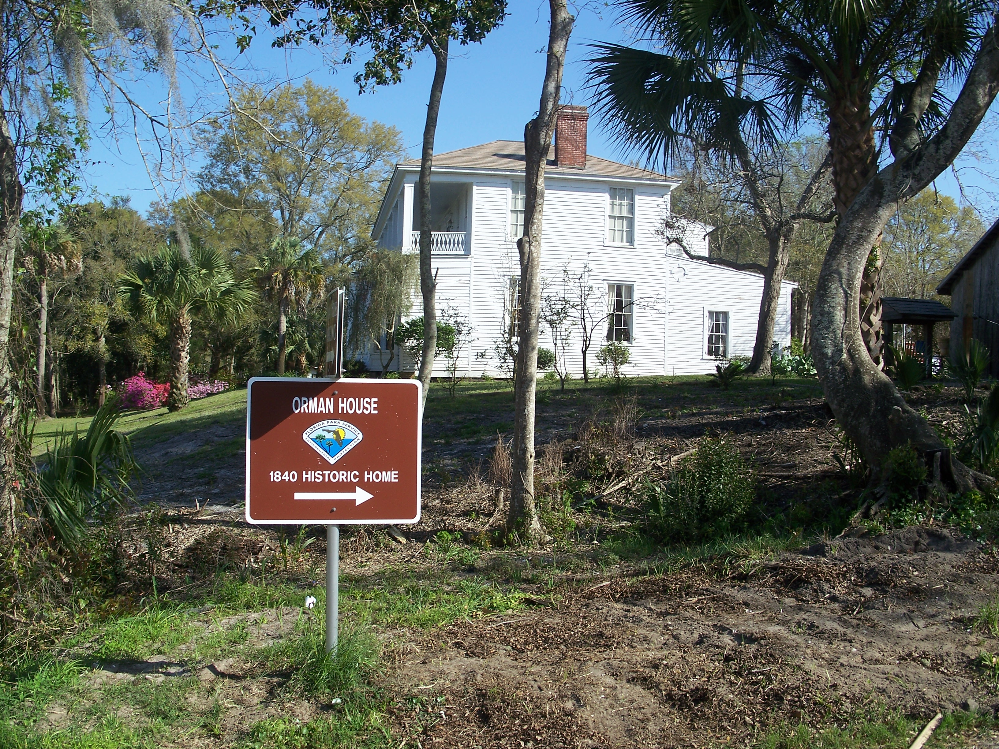 The Orman House in Apalachicola, Florida.